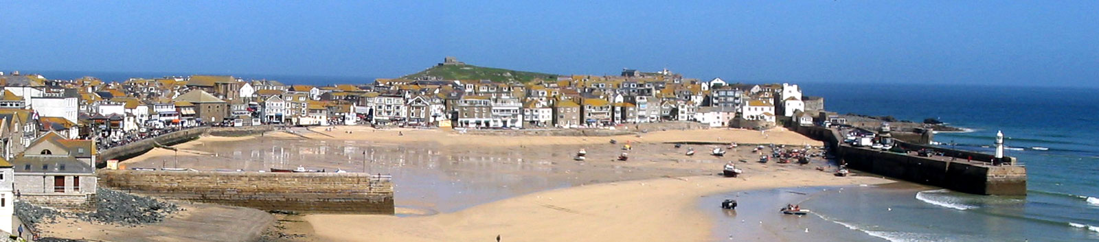 St. Ives, Cornwall seen from bus station